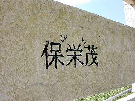 Bin Bus Stop. Bin (保栄茂) is one of nandoku-chimei (Japanese placenames with unusual readings). "保栄茂" is read in Standard Japanese as "Hoemo".